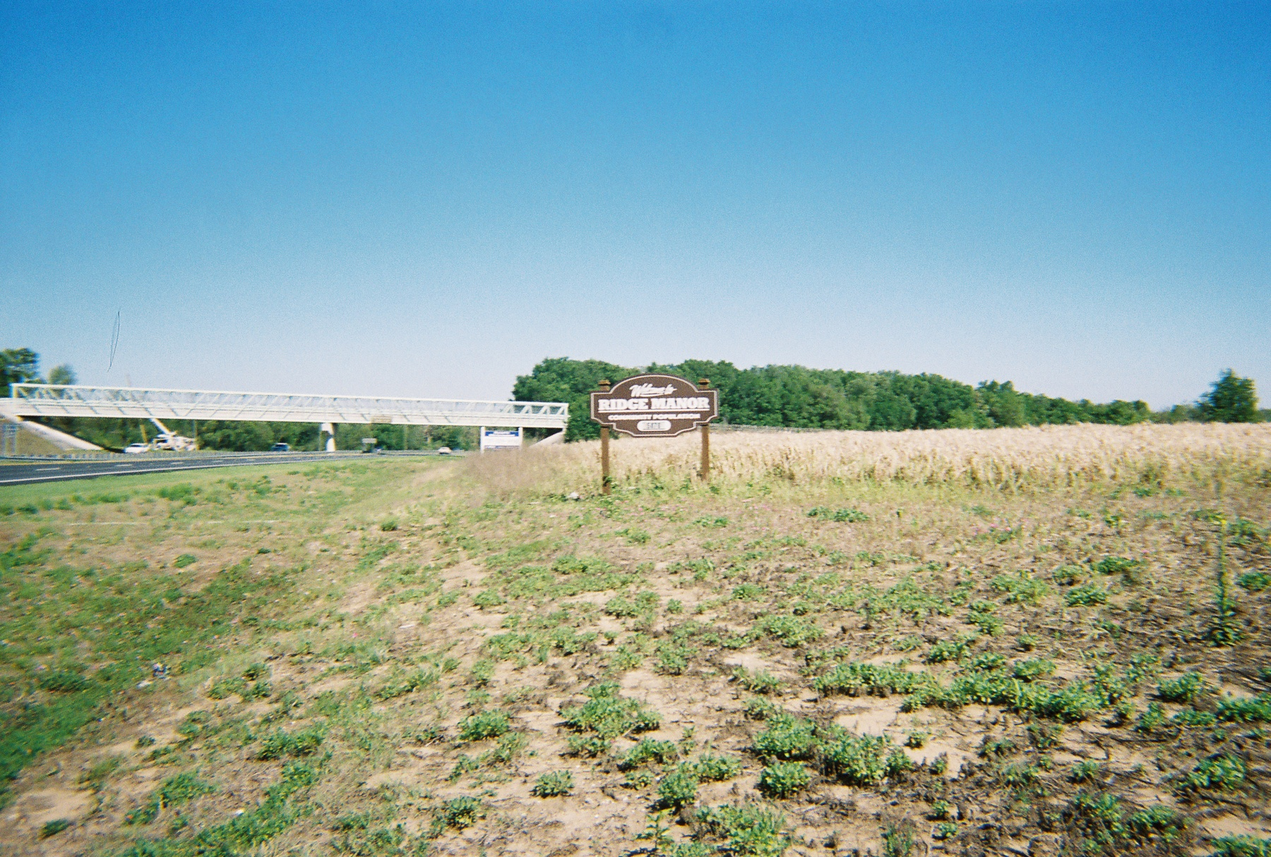 Sign welcoming motorists to Ridge Manor, Florida east of the intersection of U.S. Route 98-Florida State Road 50, Croom-Rital Road and Kettering Boulevard. Note the bridge for the Withlacoochee State Trail in the background.